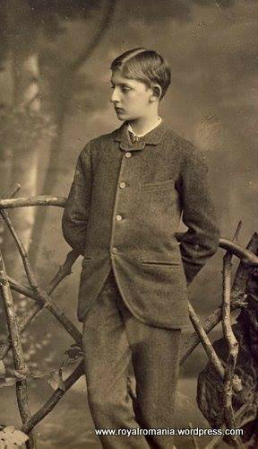 Prince Ferdinand of Hohenzollern-Sigmaringen, 1878